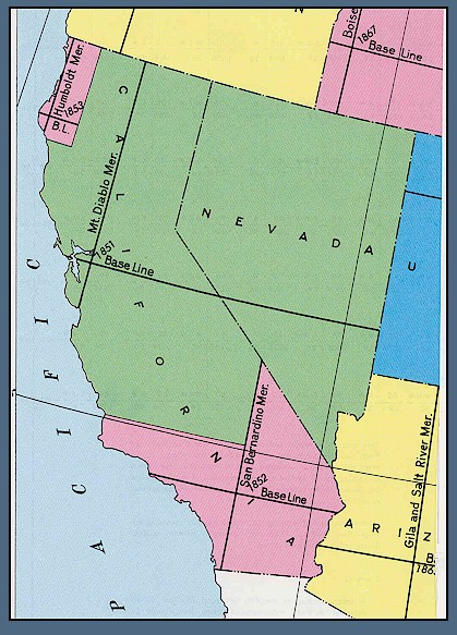 U.S. Bureau of Land Management map showing principal meridians and base lines used for cadastral surveys.